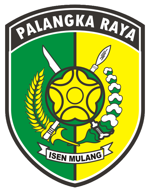 Lambang (Coat of Arms) of Kota (City) Palangka Raya, Provinsi Kalimantan Tengah (Central Kalimantan Province, on island Borneo/Kalimantan in id), Indonesia